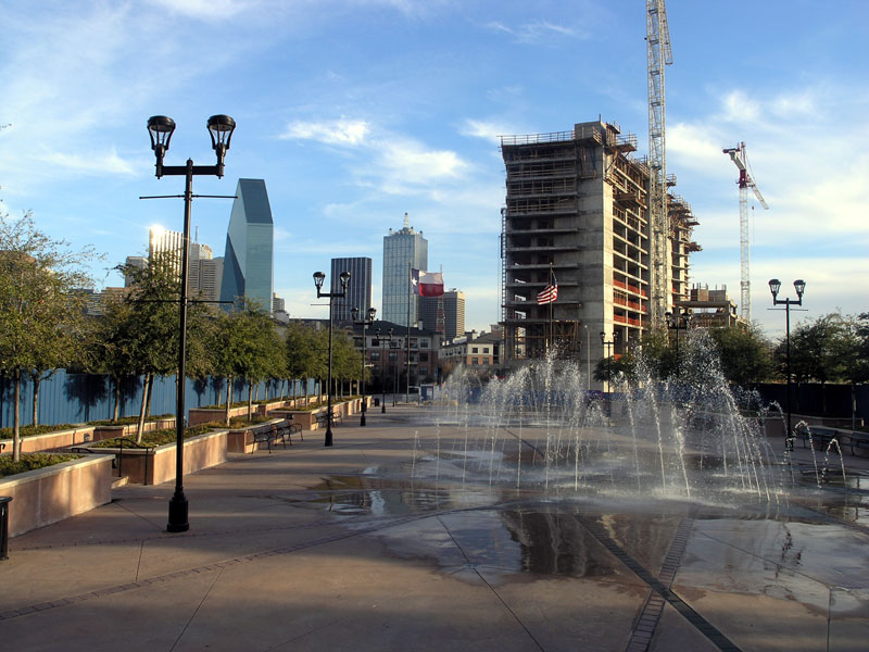 The W Dallas Victory Hotel and Residences as seen from Victory Plaza in the Victory Park neighborhood of Dallas, Texas (USA)